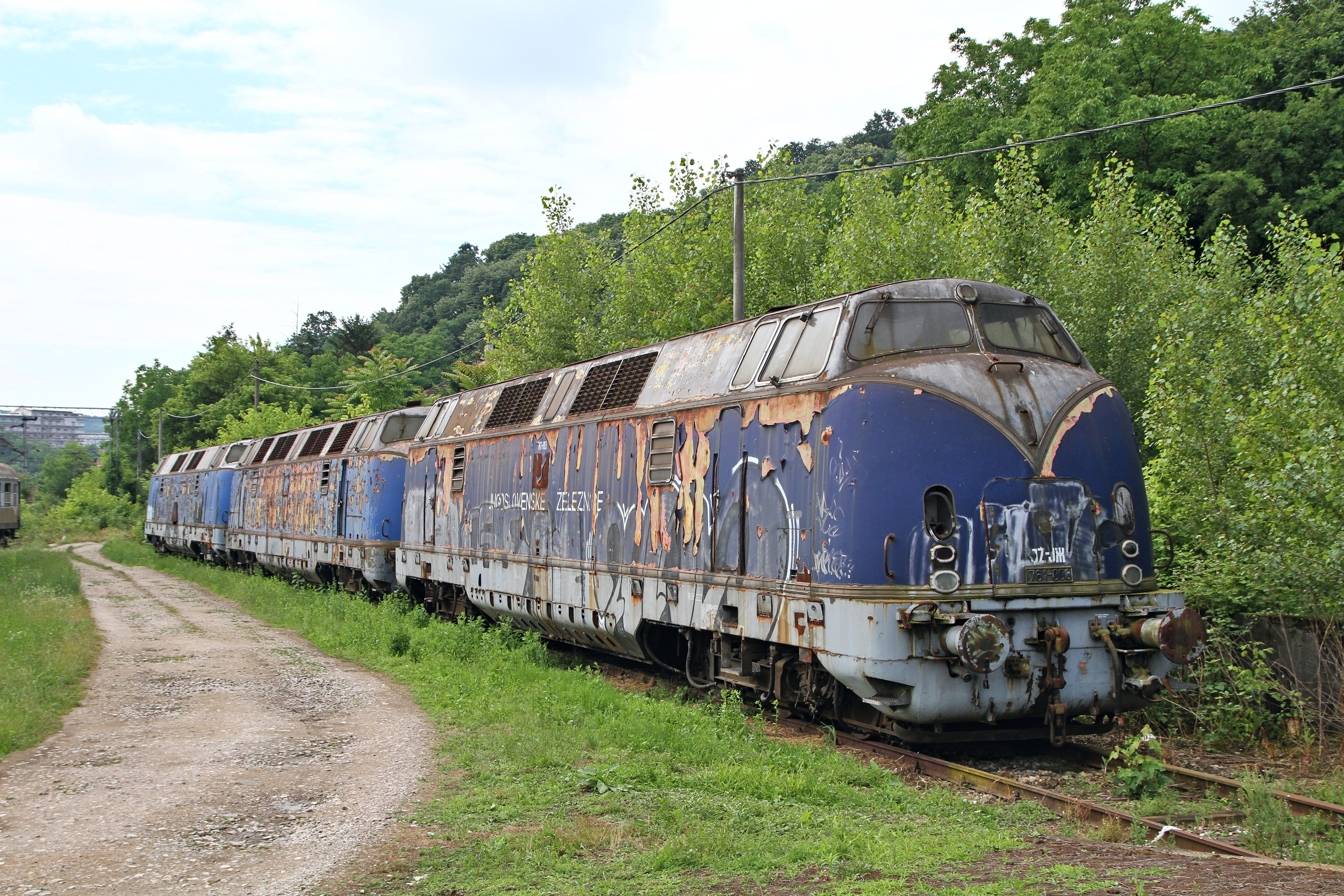 Diesel locomotives 761 001 - 003 stored at Topčider station in Belgrade.